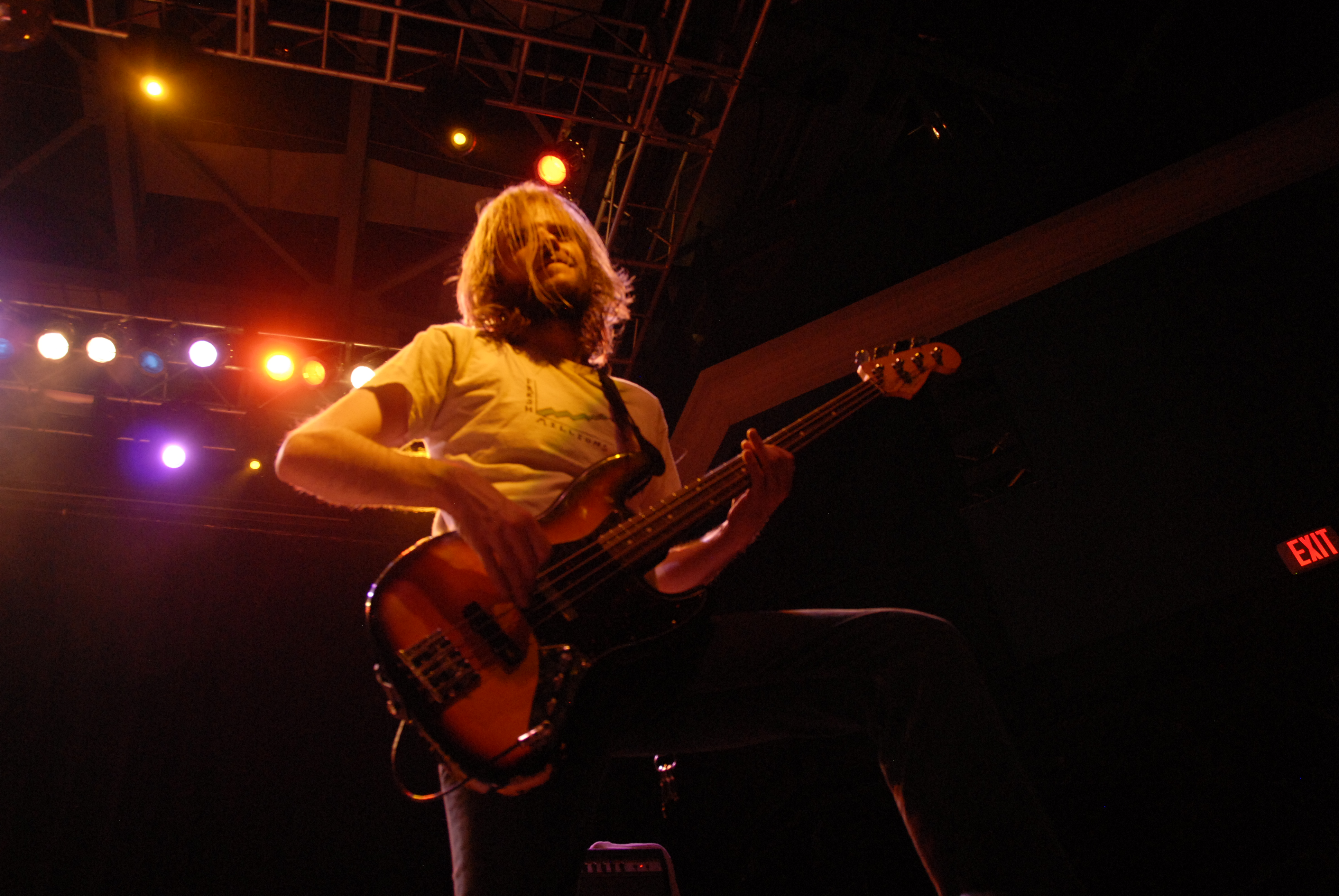 This is a picture of Bryan Richie, bass player for the metal band The Sword, playing at the 9:30 Club in Washington DC on Monday 6 December 2010. It was shot on a Nikon D200 with a Nikkor 18-200mm lens. I (Wikipedia user OzzyRules) shot this photo and give Wikipedia express permission to use this image on any part of any of its websites. You can find where I uploaded this image to Flickr here.